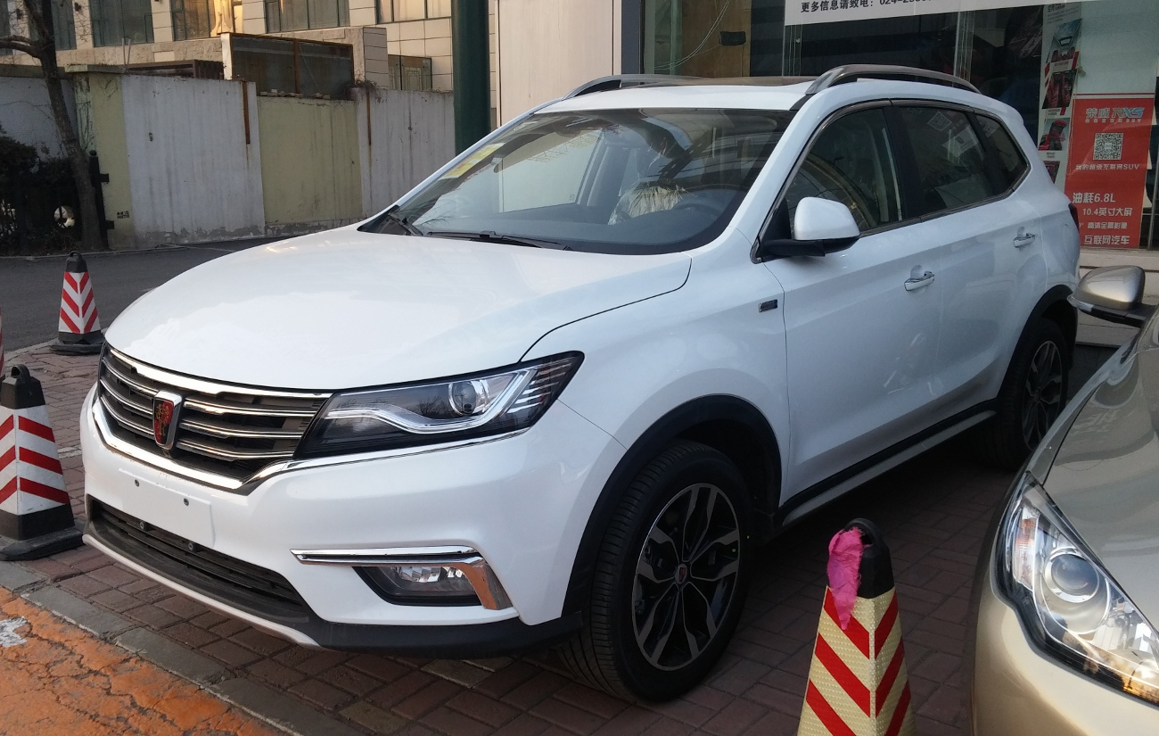 Roewe RX5 photographed in Shenyang, Liaoning province, China.